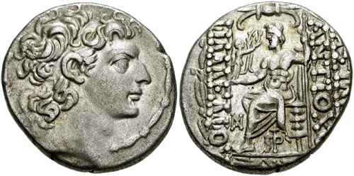 SELEUKID KINGS of SYRIA. Antiochos XIII. 69-64 BC. AR Tetradrachm (15.35 gm). Antioch mint. Diademed head right / [B]ASIL[EWS] ANTIOC[OU] FILADELFOU, Zeus seated left, holding Nike in right hand, sceptre in left; monogram to left, P under throne. SNG Spaer 2919 var. (no P); SMA 460; Houghton -. Lightly toned, good VF. Rare. ($1000)